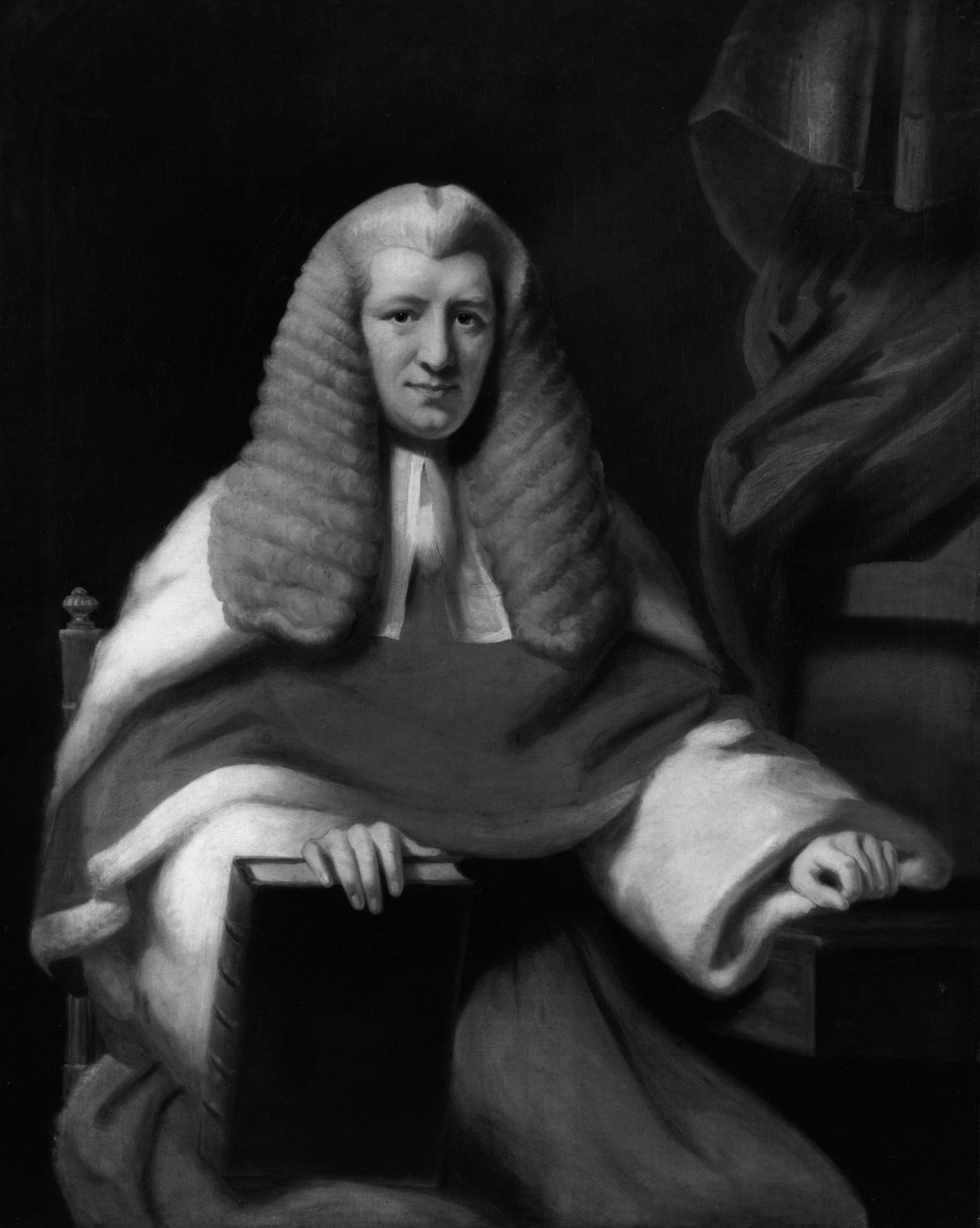 Sir John Bayley, 1st Bt, by William Russell (died 1870), given to the National Portrait Gallery, London in 1877. All images in this batch have been confirmed as author died before 1939 according to the official death date listed by the NPG.